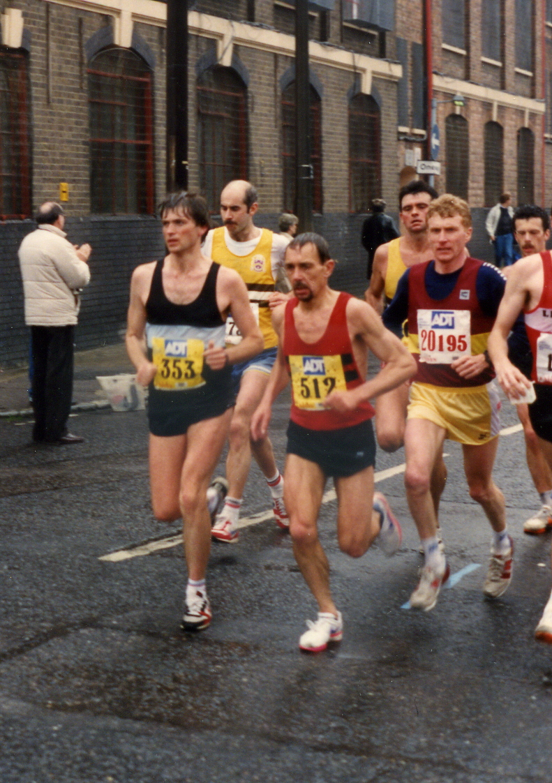 Competitors in the 1990 London Marathon